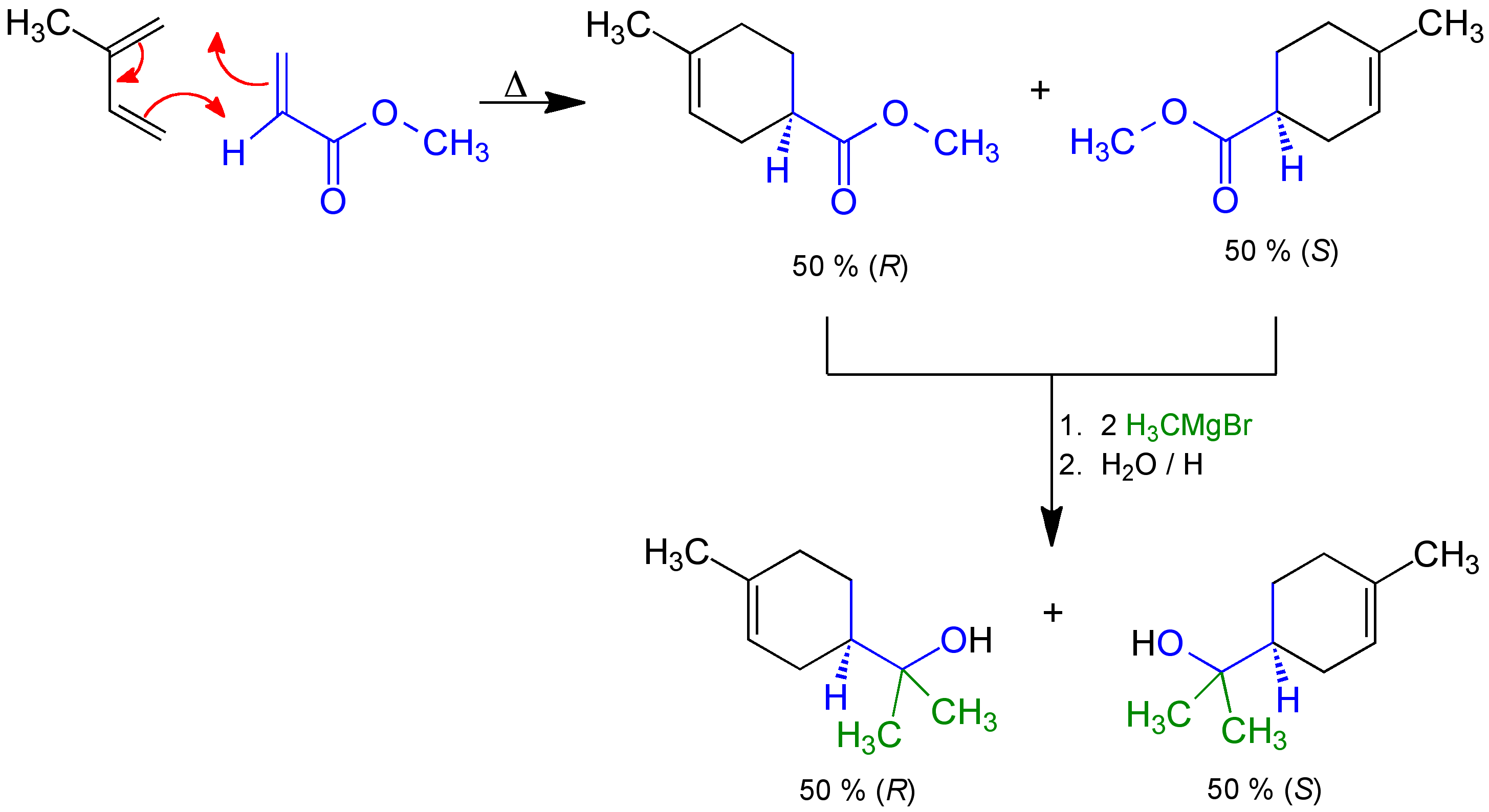 (±)-Terpinol_Synthesis